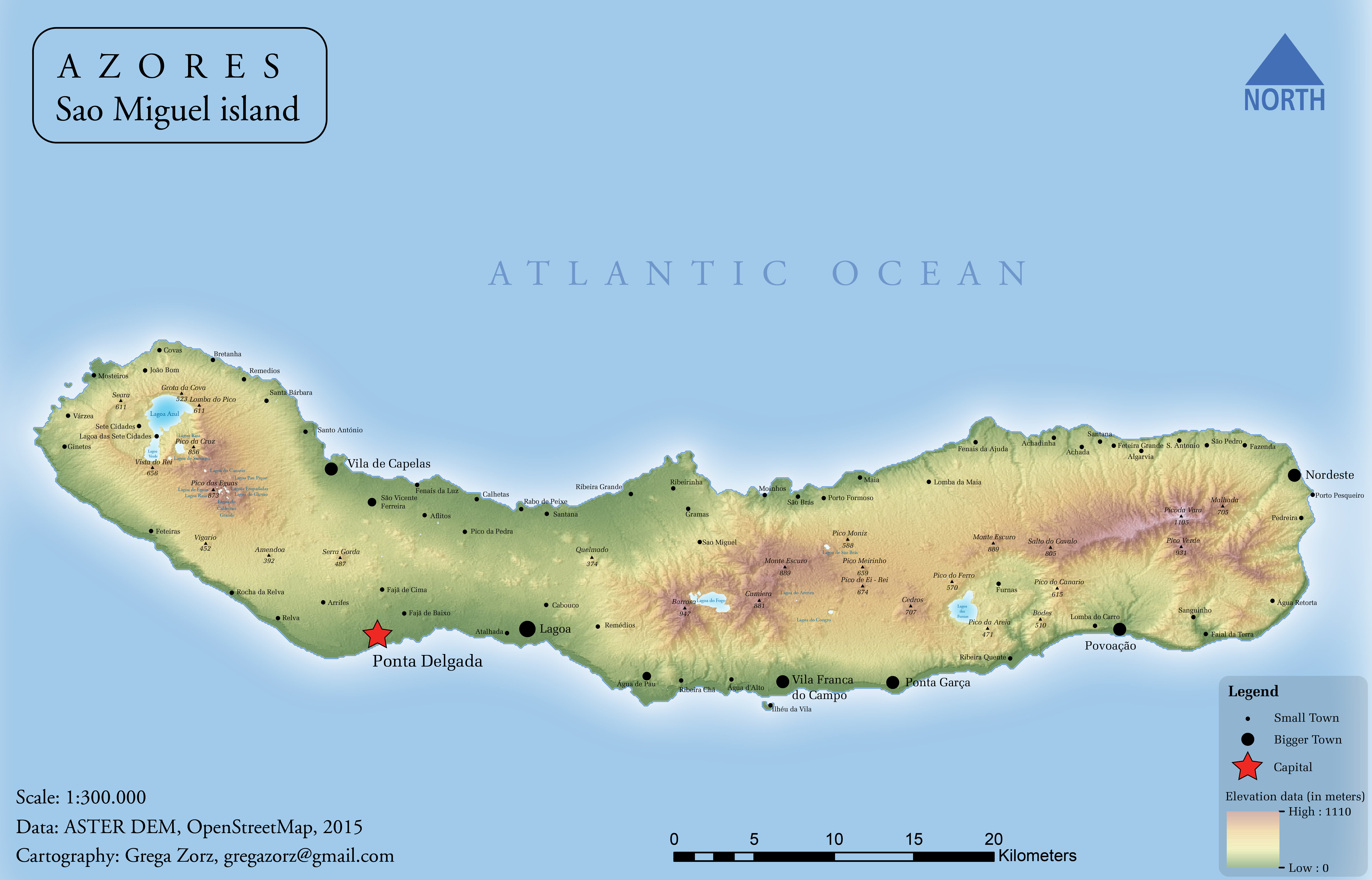 Physical map of Sao Miguel Island in the Azores